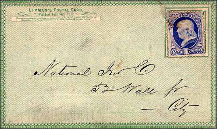 LIPMAN CARDS 1861-1872 invented by John P. Charlton